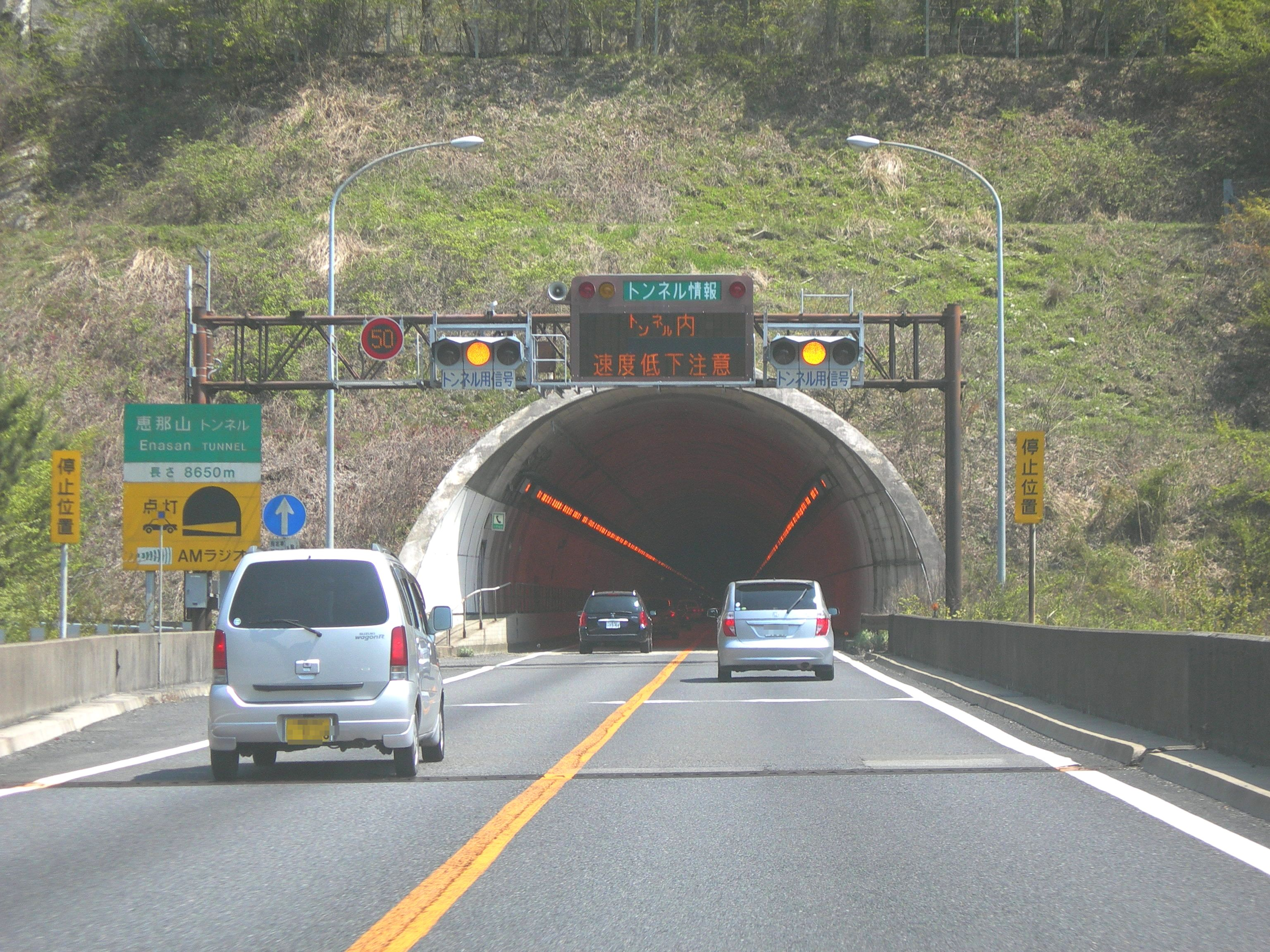 Enasan Tunnel on the Chuo Expressway inbound line for Tokyo